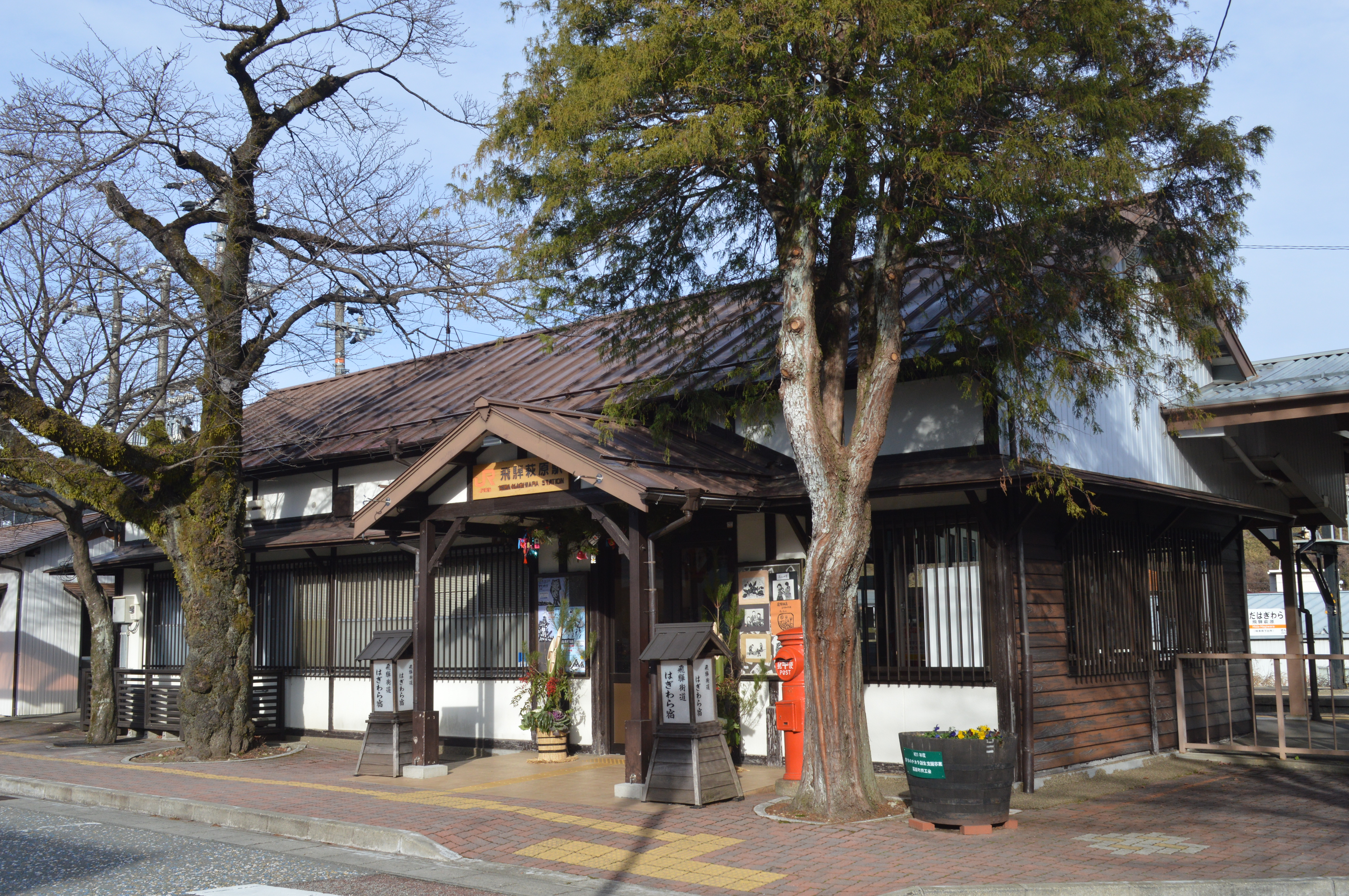 Hida-Hagiwara Station on the JR Central Takayama Main Line in Hagiwara-cho, Gero, Gifu.